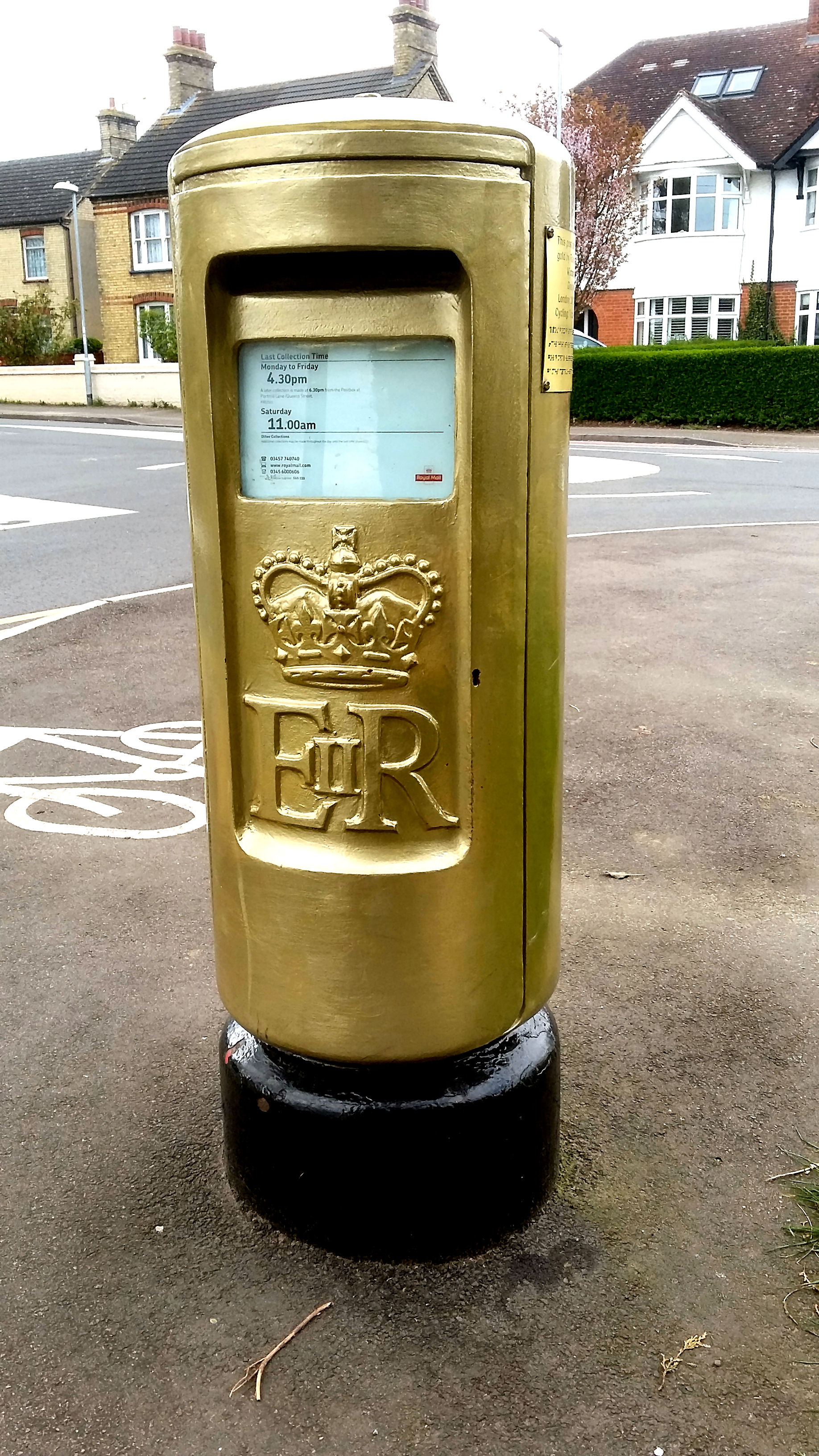 Gold-painted postbox in honour of Victoria Pendleton in her native Stotfold in Bedfordshire